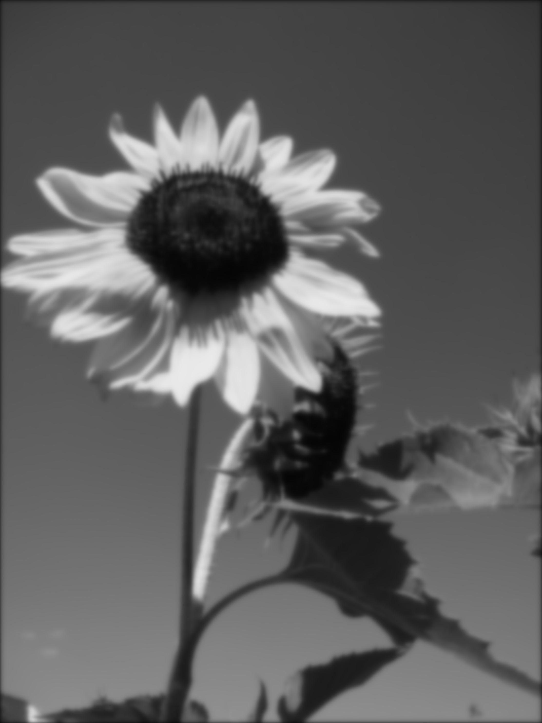 Sun flower picture smoothed with Deriche IIR filter withat parameter aplha = 0.25